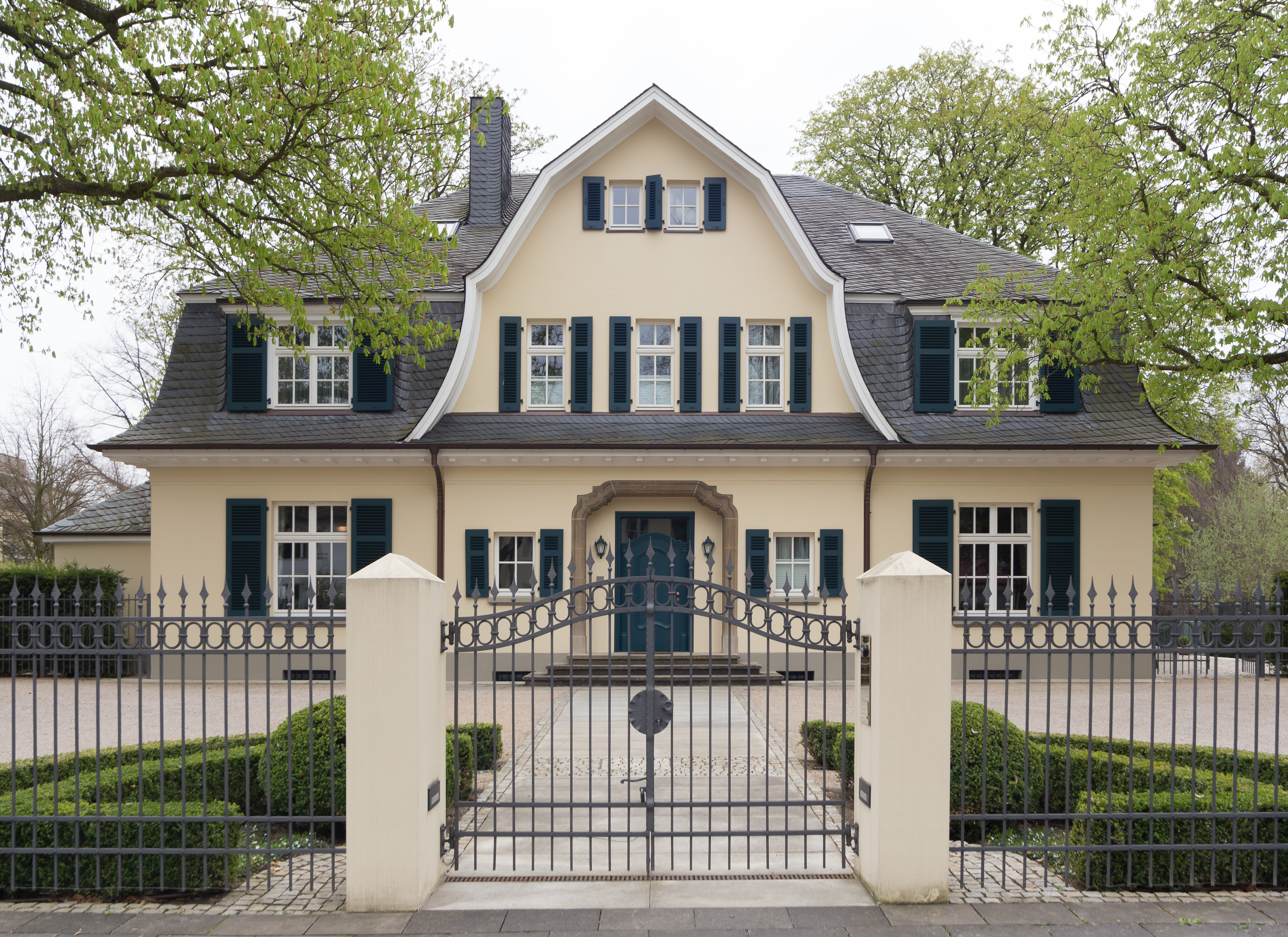 Villa Friedrich-Wilhelm-Straße 14, Bonn: view from the street